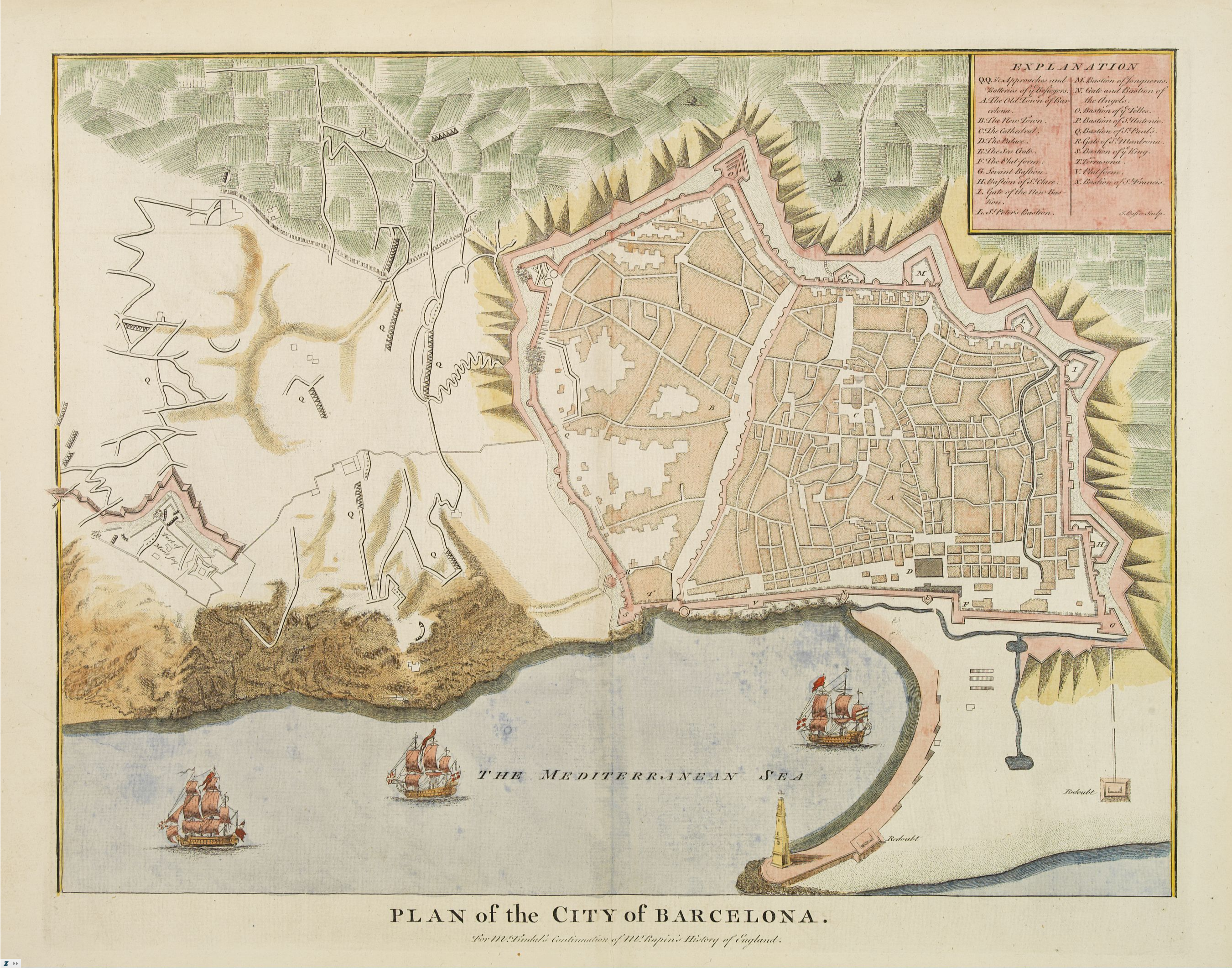 Map (possibly historical) of Barcelona, from Nicolas Tindal's second edition of his translation of Rapin's History of England, published 1732.